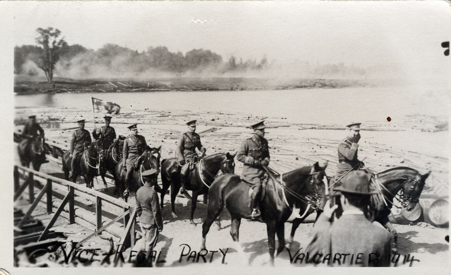 Postcard of the visit of the Governor General of Canada - Prince Arthur, Duke of Connaught and Strathearn - to the Valcartier military base near Quebec City.